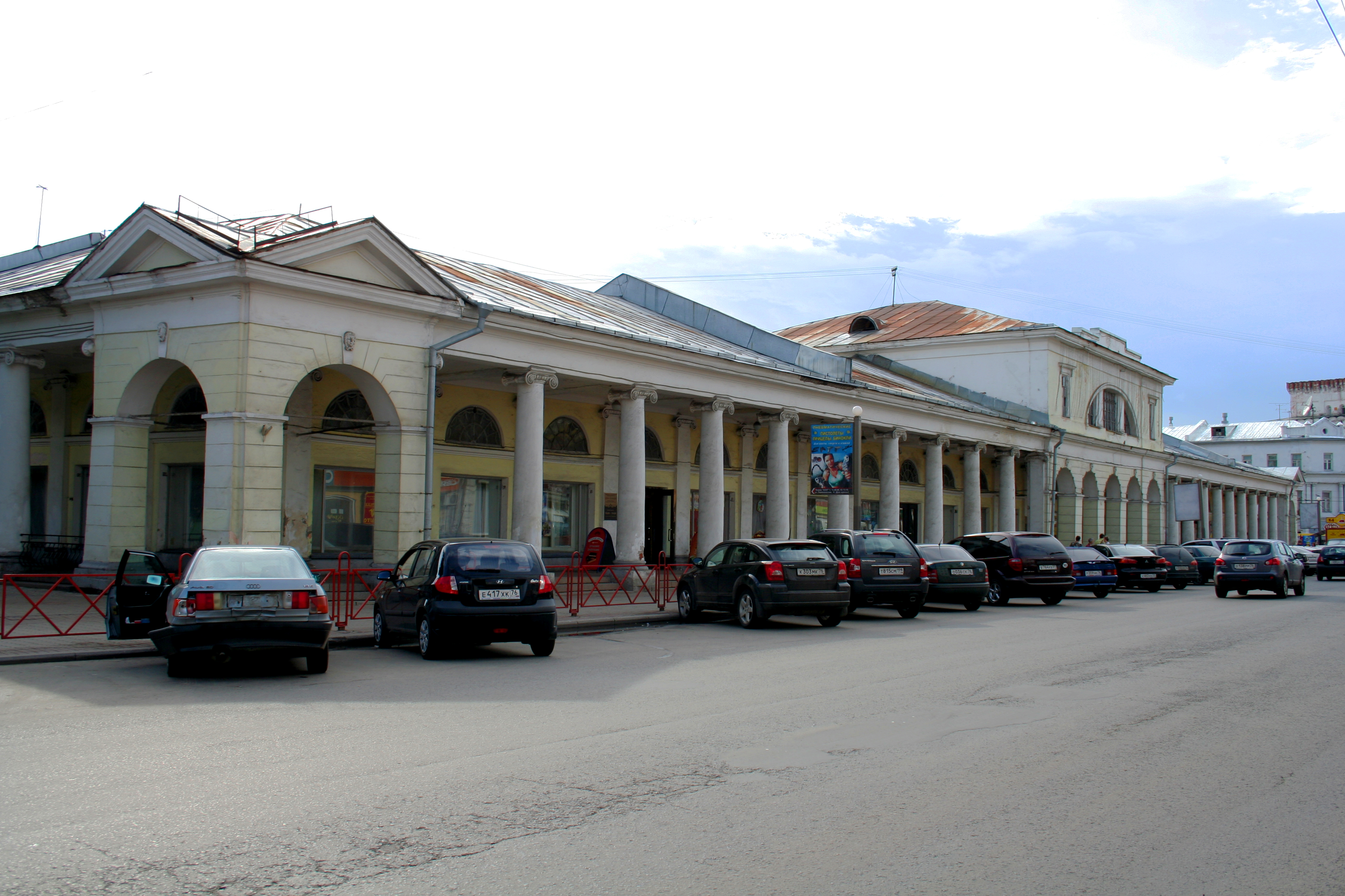 Old trading rows in Yaroslavl, Russia